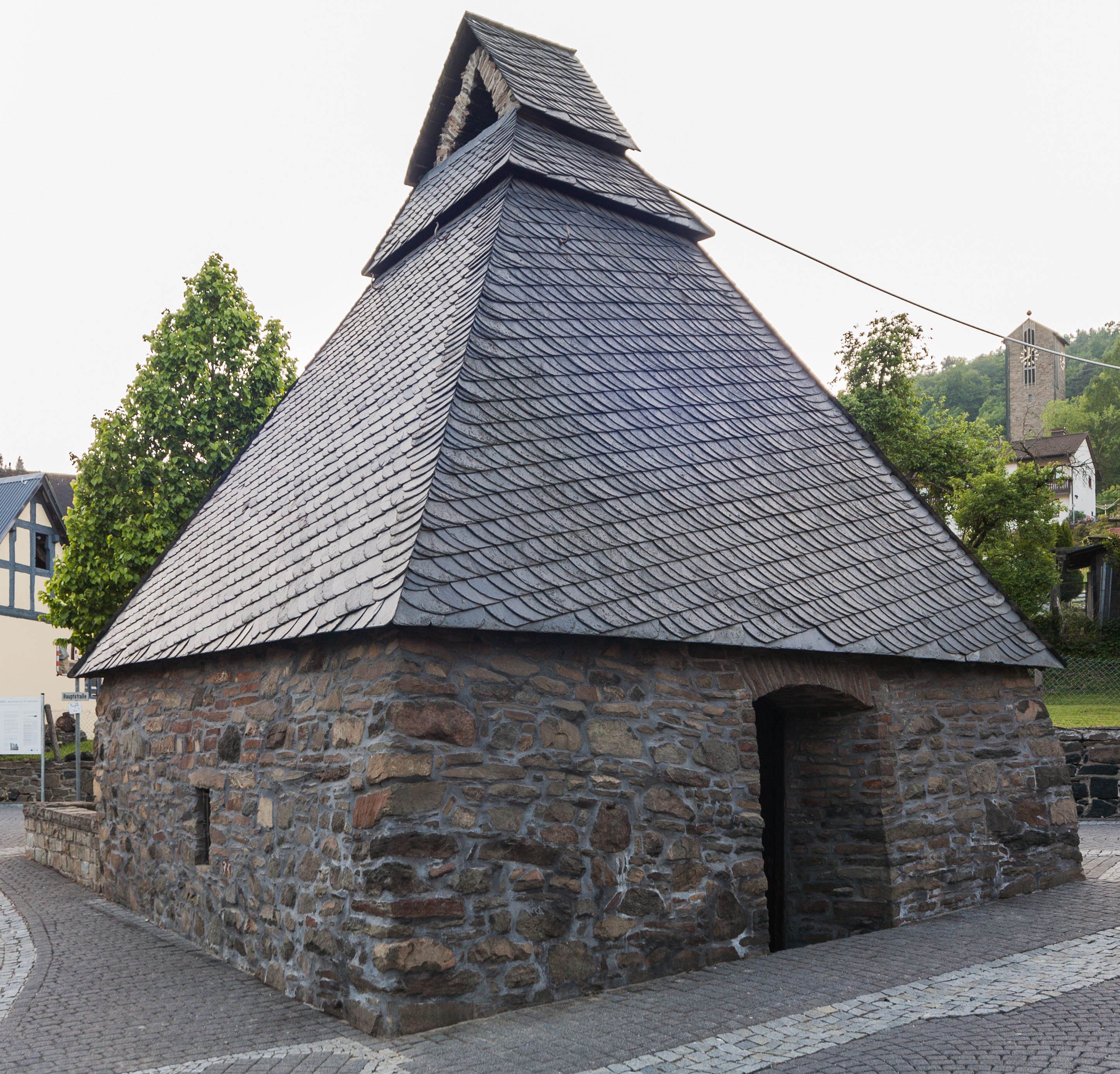 Bakehouse in Gönnern, district Marburg-Biedenkopf, Germany – built 1712, view direction west